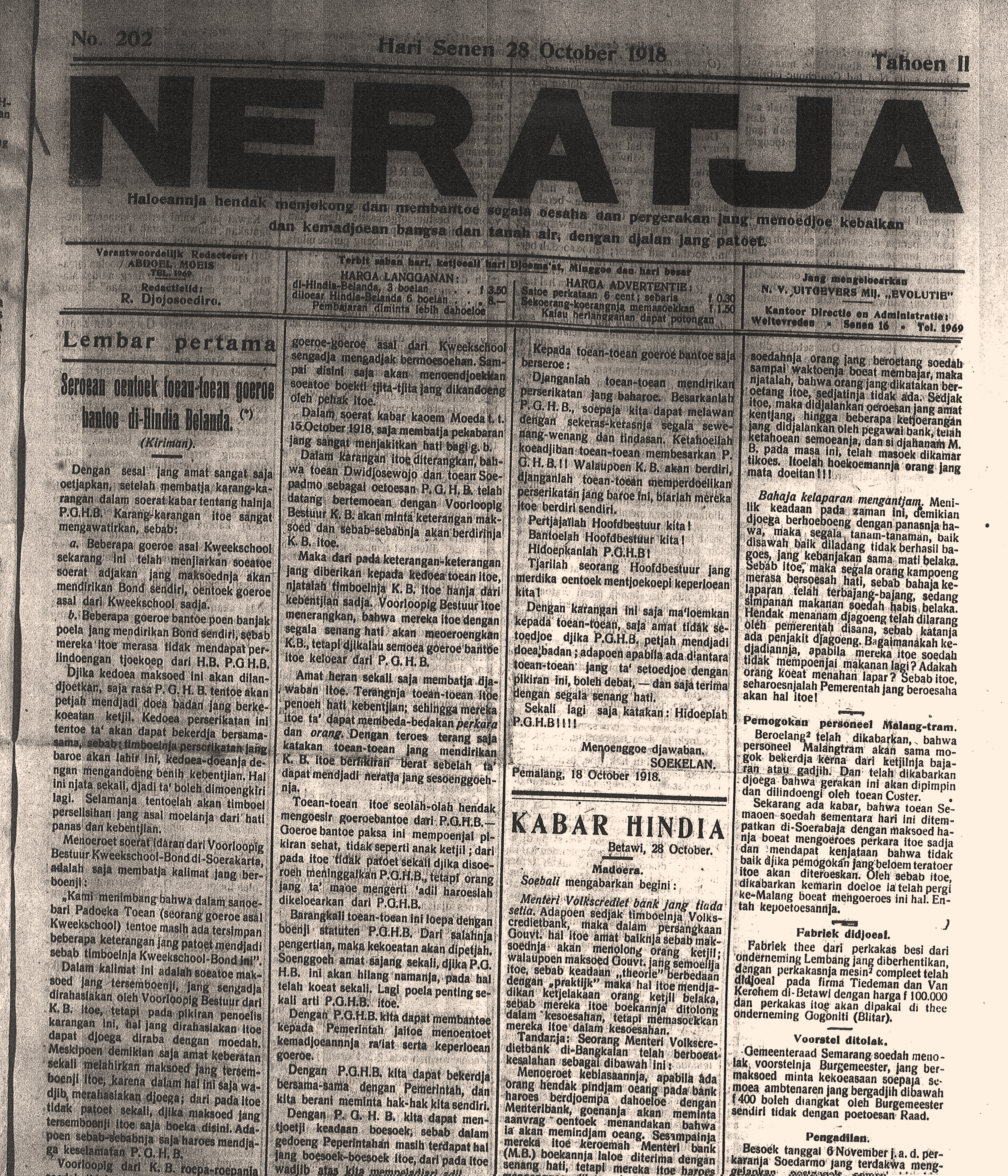 The front page of Neratja, a Malay language newspaper from Batavia, Dutch East Indies, from October 26 1918.